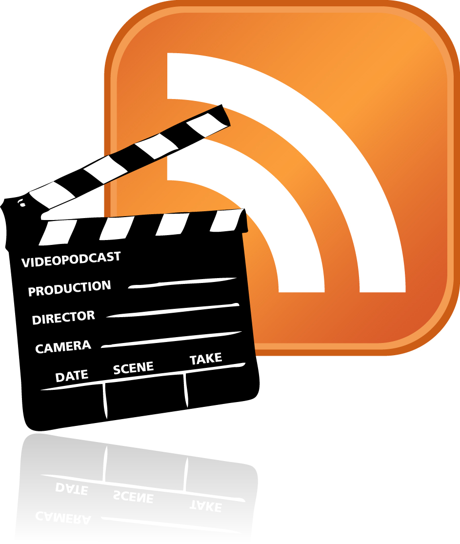 For Videopodcast there is no universal icon avaivable. A suggested icon was created by designer Andreas Prinz.